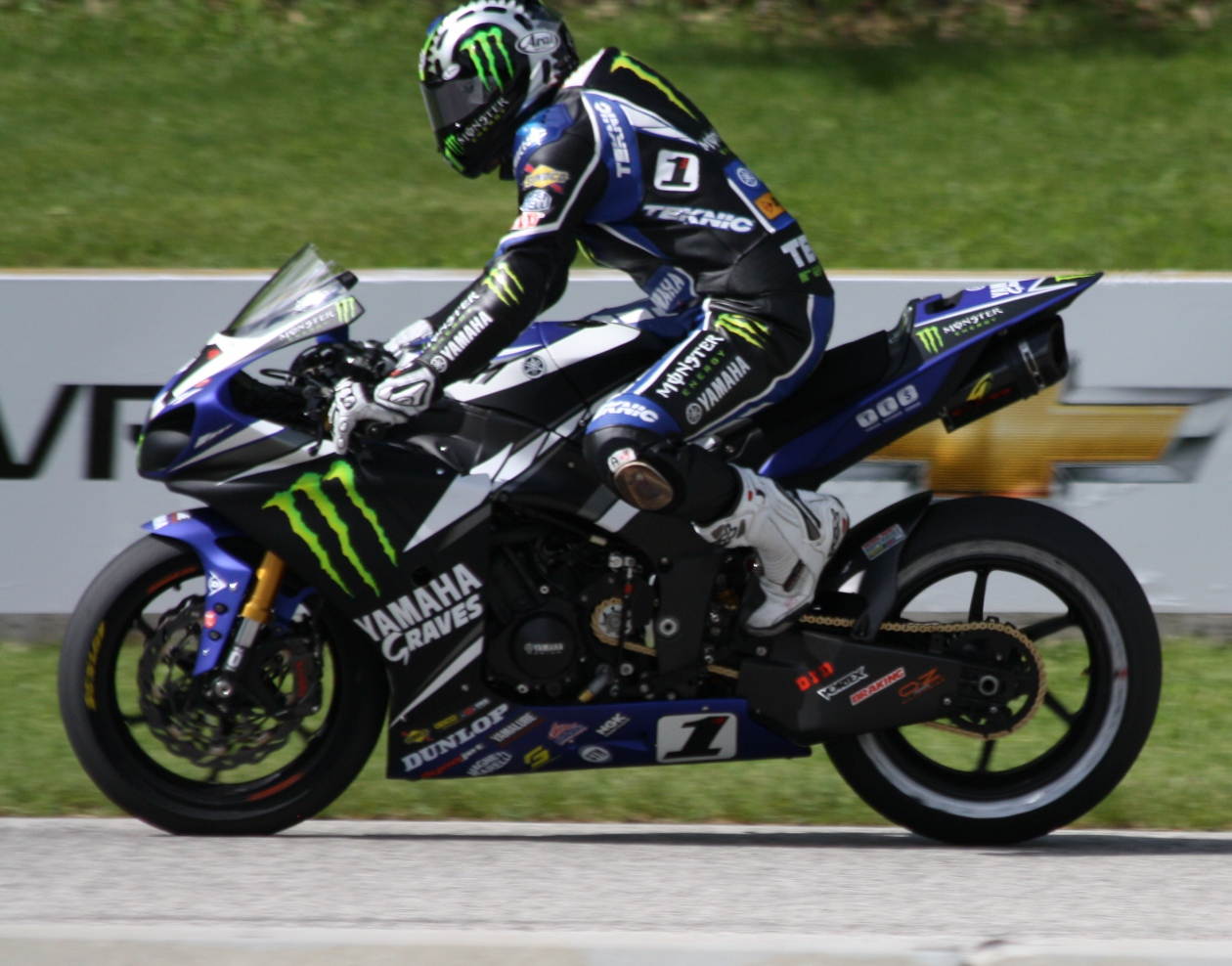 The Superbike #1 of Josh Hayes, the winning riding at the second day of the 2013 Subway SuperBike Doubleheader at Road America.